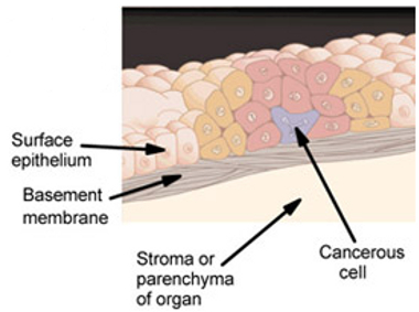 "In addition to benign tumors, there are in situ tumors and invasive tumors. In situ tumors do not invade the basement membrane, whereas invasive tumors do invade the basement membrane." Diagram of an in situ carcinoma